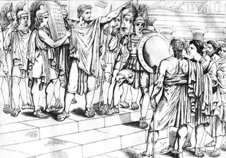 Lycurgus as legislator